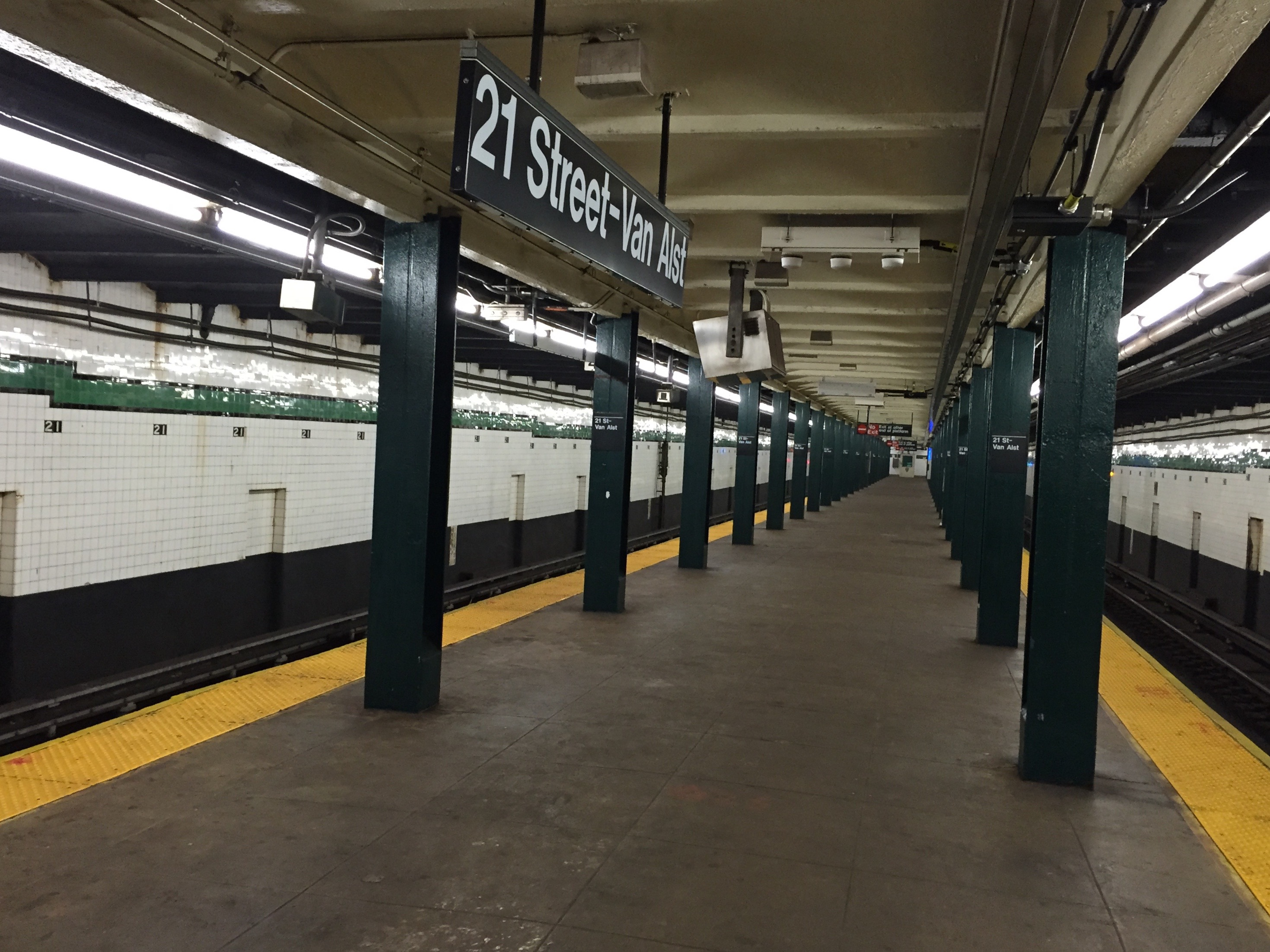 Platform at the 21st Street - Van Alst station on the G.